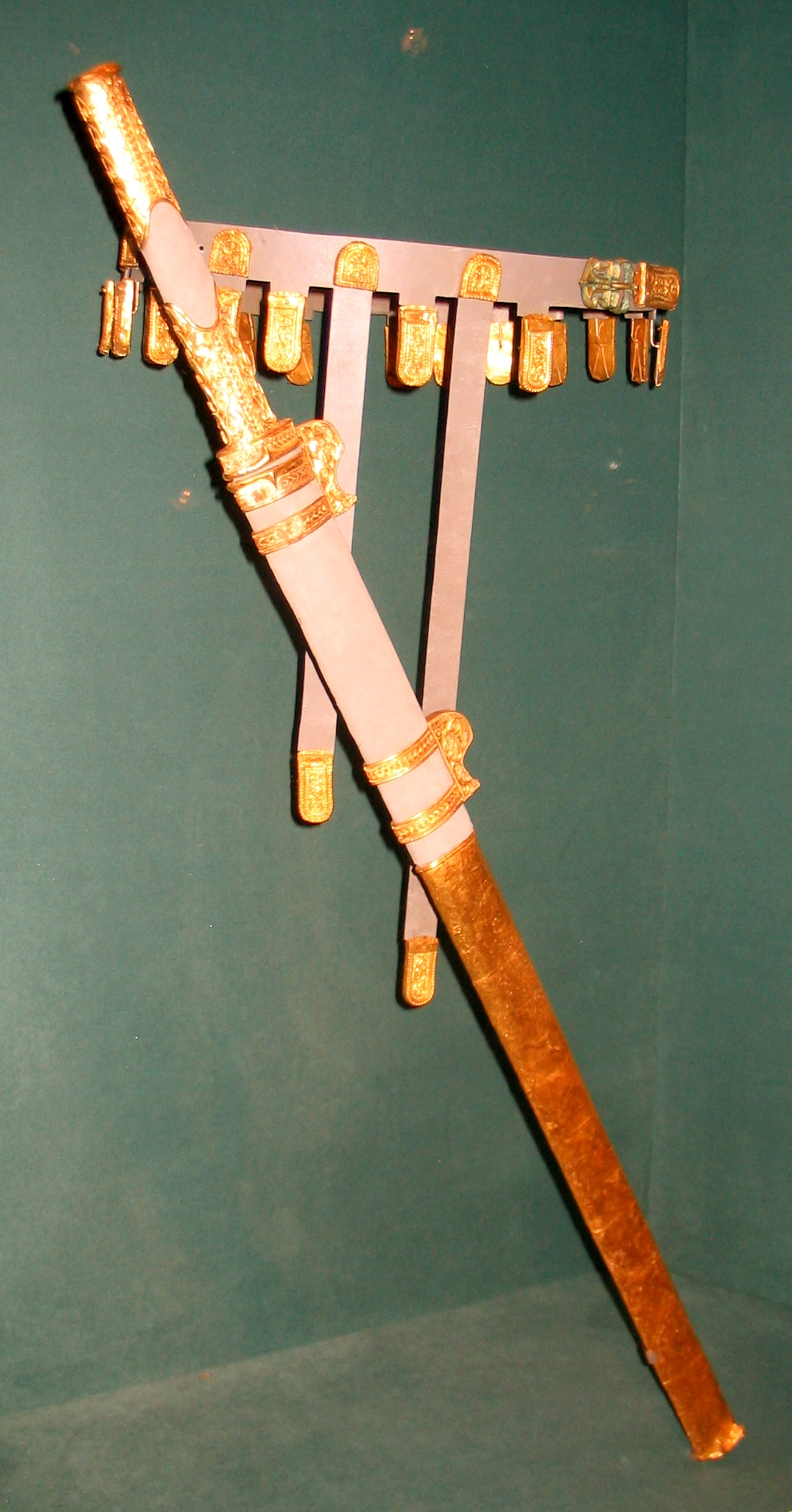 Sword handle and chapes, gold, from Iran, the Sasanian Dynasty, 600-650. On exhibit at the Sackler Gallery at the Smithsonian Institution.